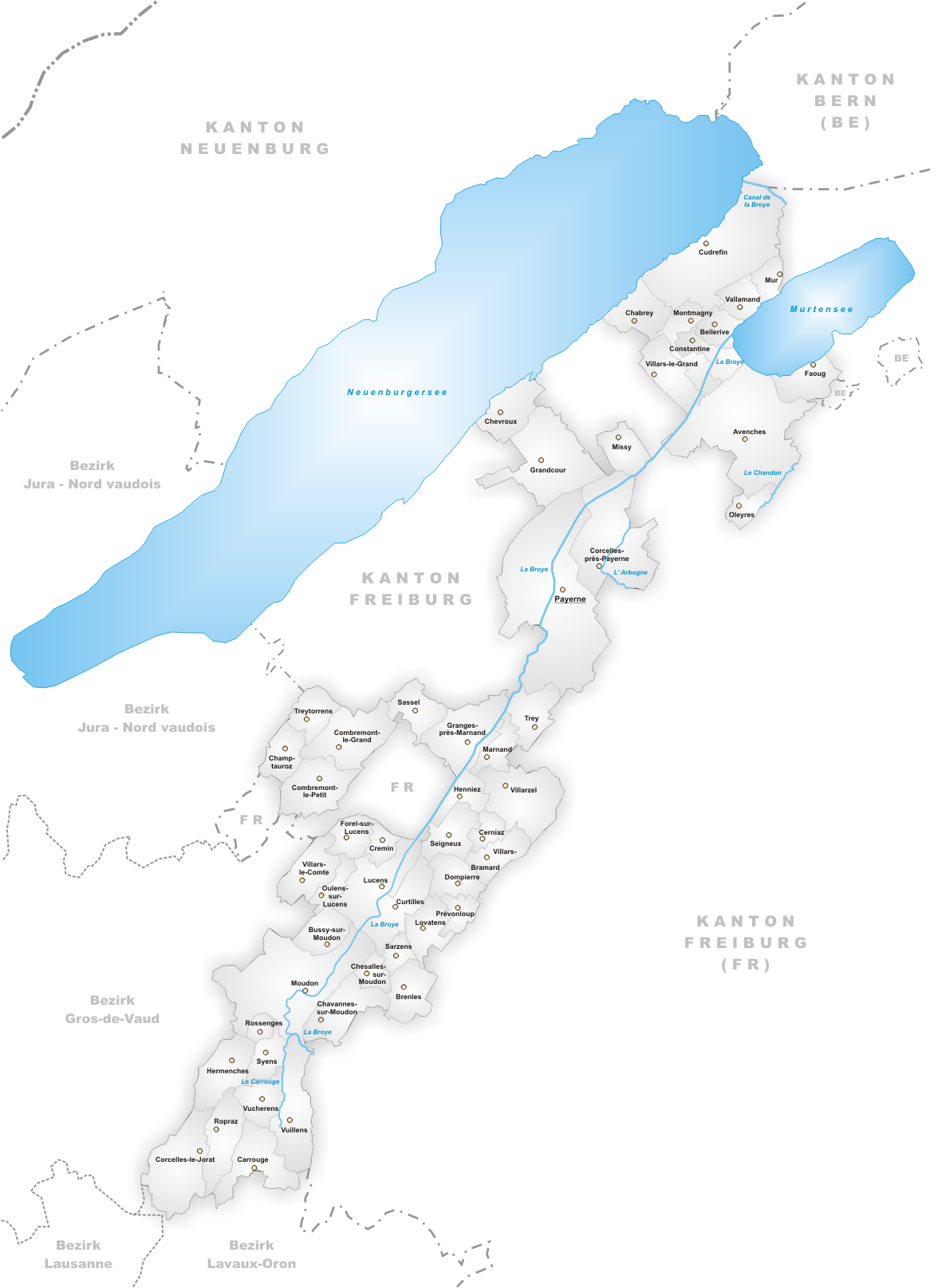 Municipalities of District Broye-Vully from 2008